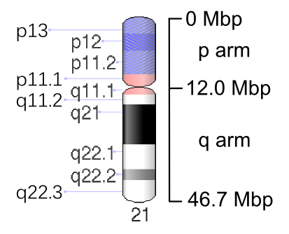 Ideogram of human chromosome 21. G-band, 550 bphs (bands per haploid set). Black and gray: Giemsa positive. Red: Centromere. Light blue: Variable region. Dark blue: Stalk. Mbp: Mega base pairs.